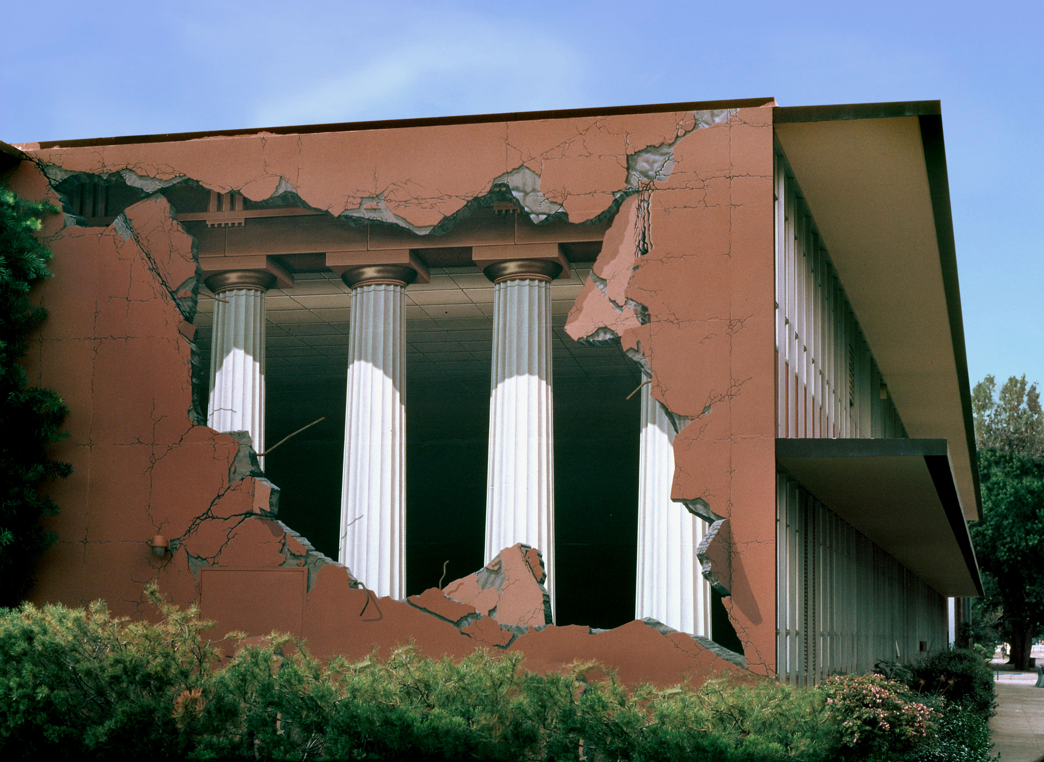 Trompe-l'oeil mural on Taylor Hall at Chico State University, painted by American mural artist John Pugh in 1981.